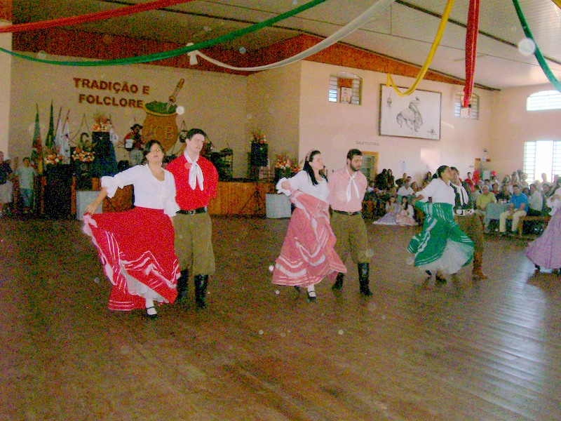 Show Gaúcho